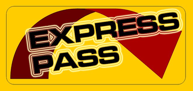 Picture of The Express Pass Card of The Amazing Race Show.